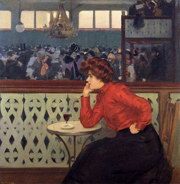 Moulin de la Galette, by Ramon Casas, Cercle del Liceu, Barcelona, 1901-1902